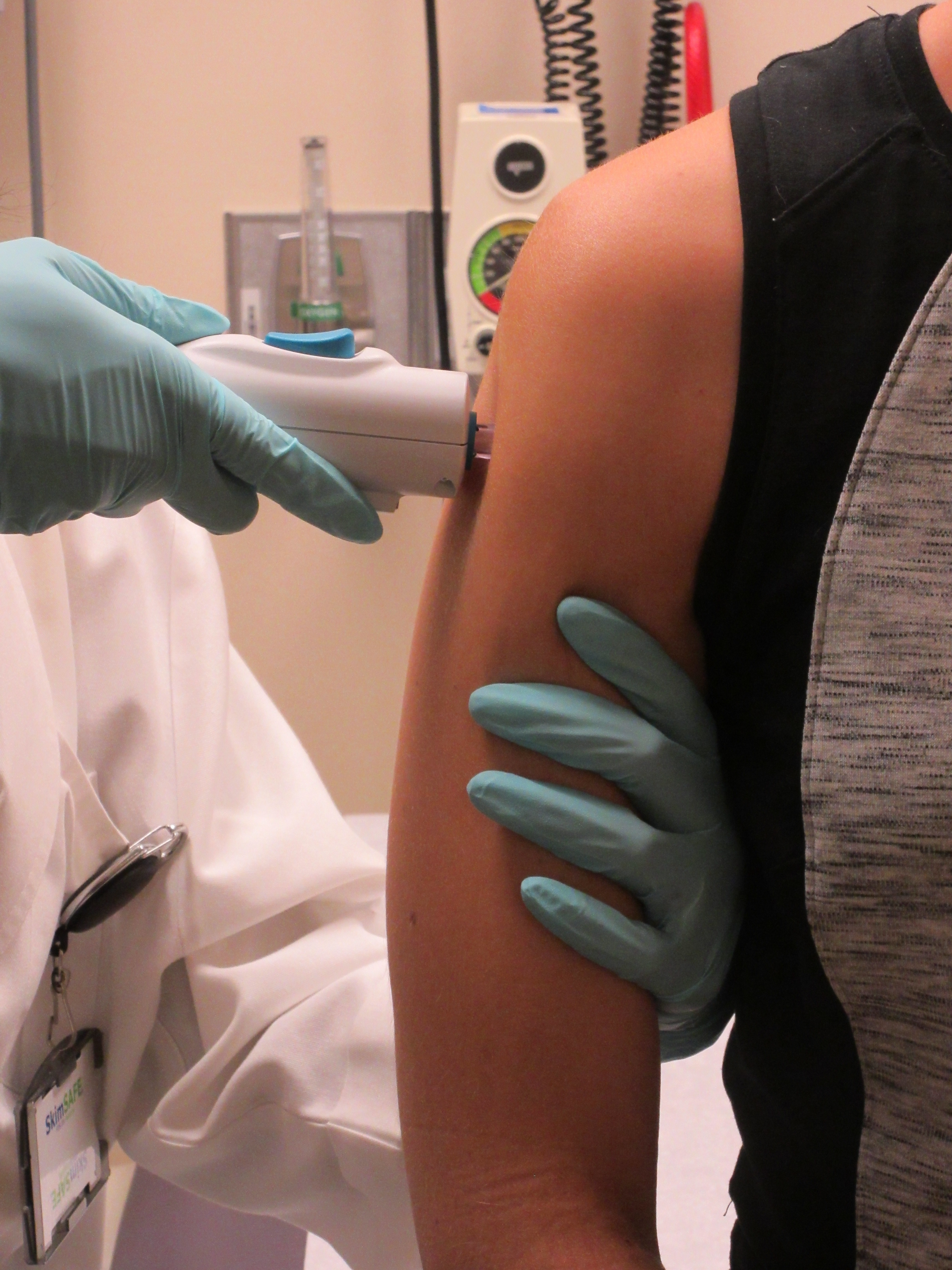 A healthy volunteer receives the NIAID Zika virus investigational DNA vaccine as part of an early-stage trial to test the vaccine's safety and immunogenicity. This is the first administration of this vaccine in a human. Credit: NIAID